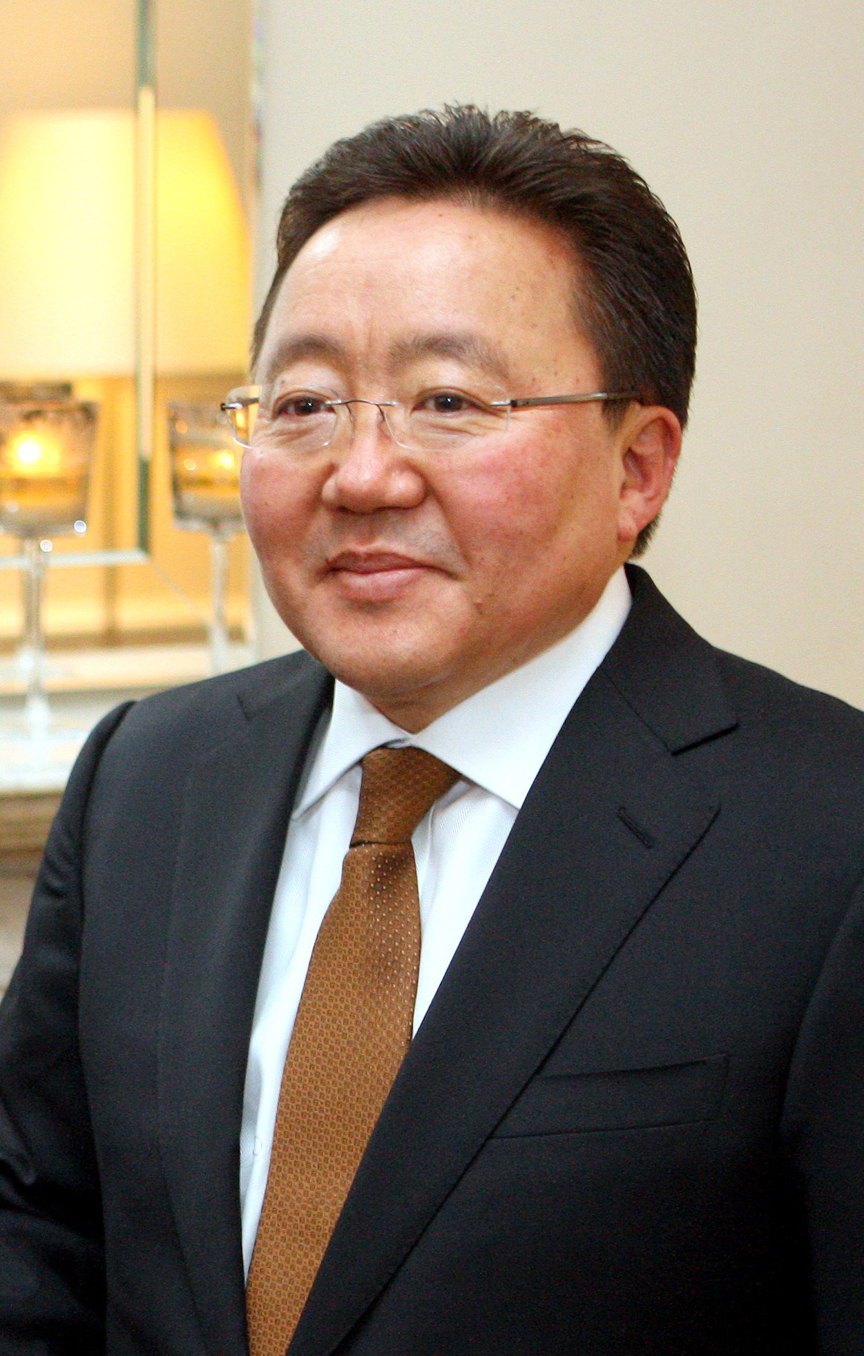 President of Mongolia Tsakhiagiin Elbegdorj and Marshal of the Polish Senate Bogdan Borusewicz